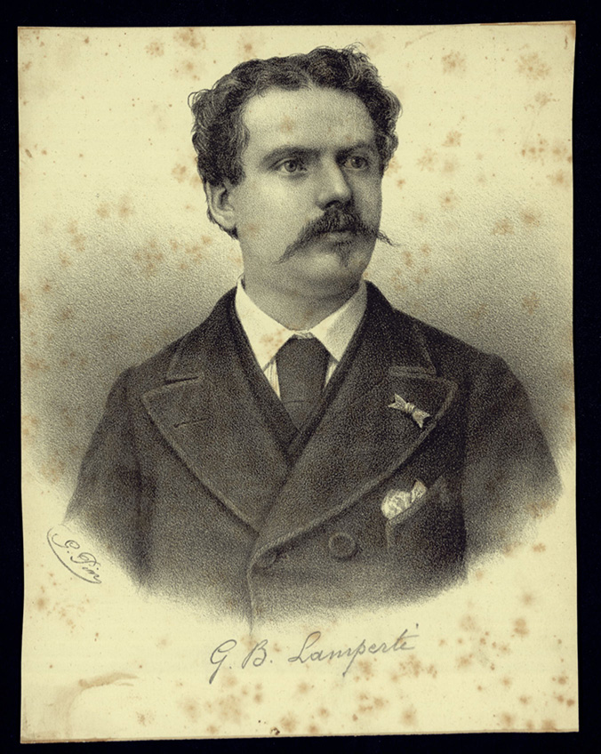 Portrait of Giovanni Battista Lamperti, vocal coach (1839-1910), before 1910.